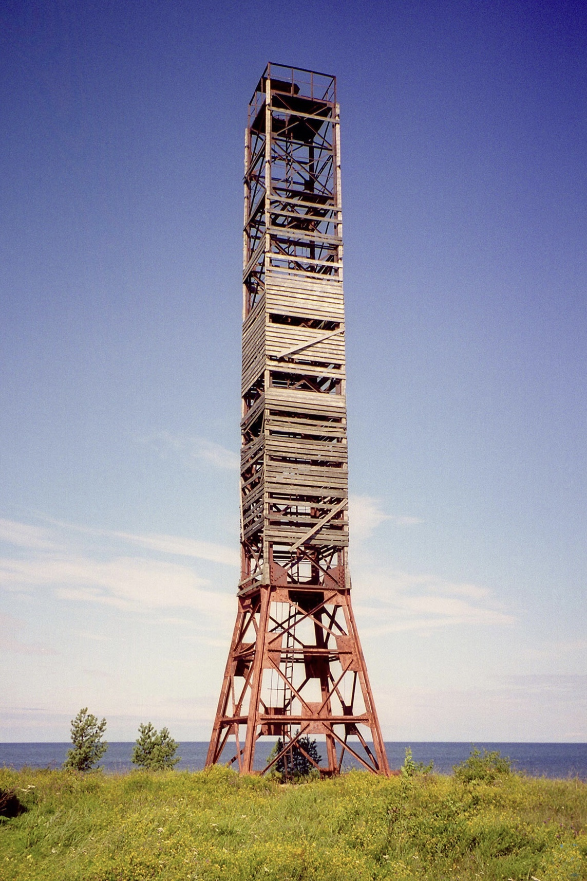 Risti daymark